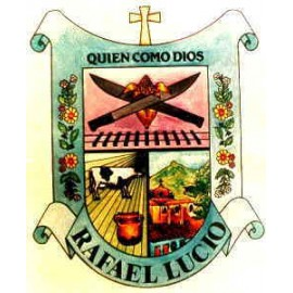 Coat of arms